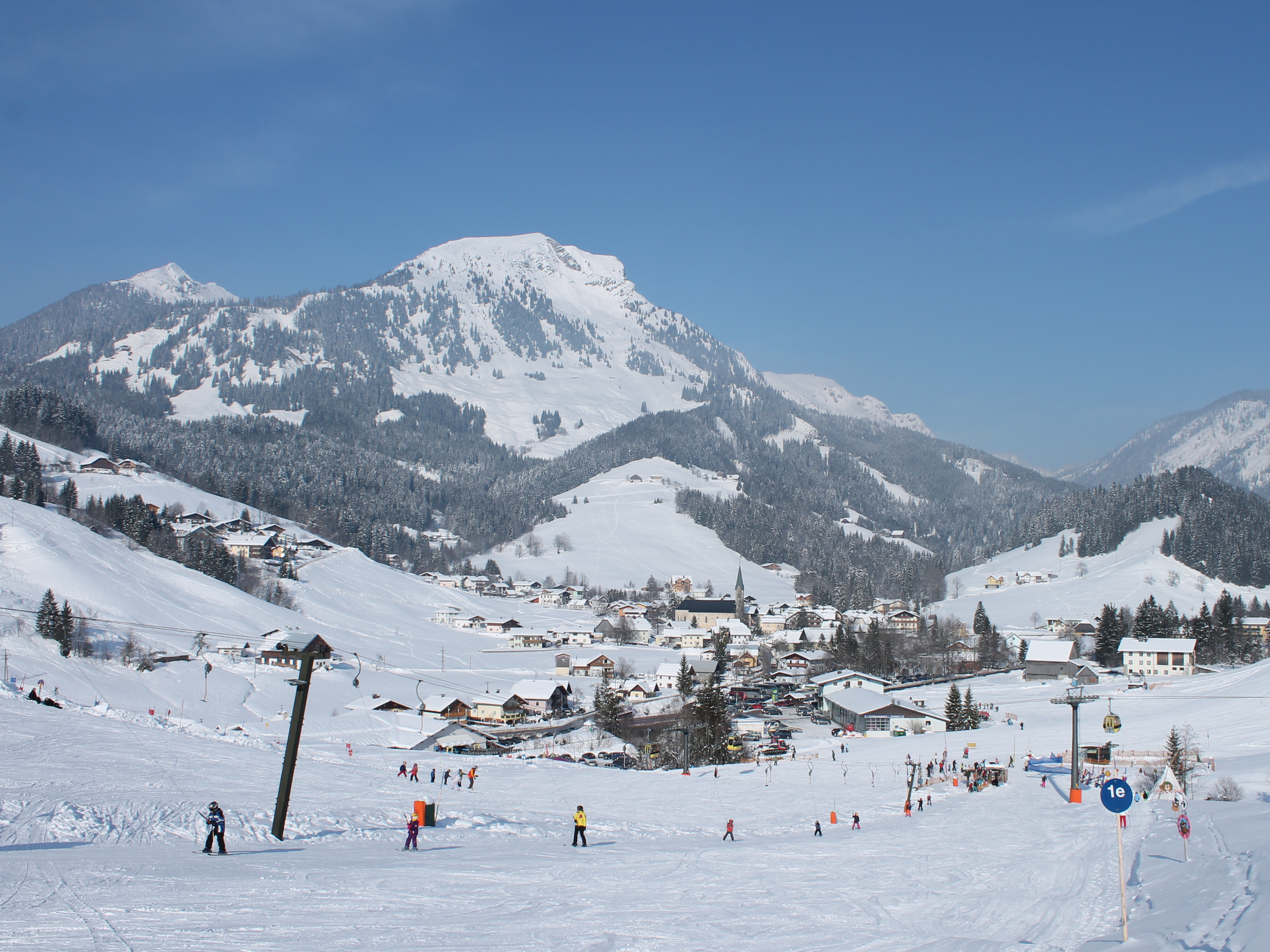 Rußbach am Paß Gschütt with Gamsfeld mountain, in the foreground ski lift and ski slope, Salzburg